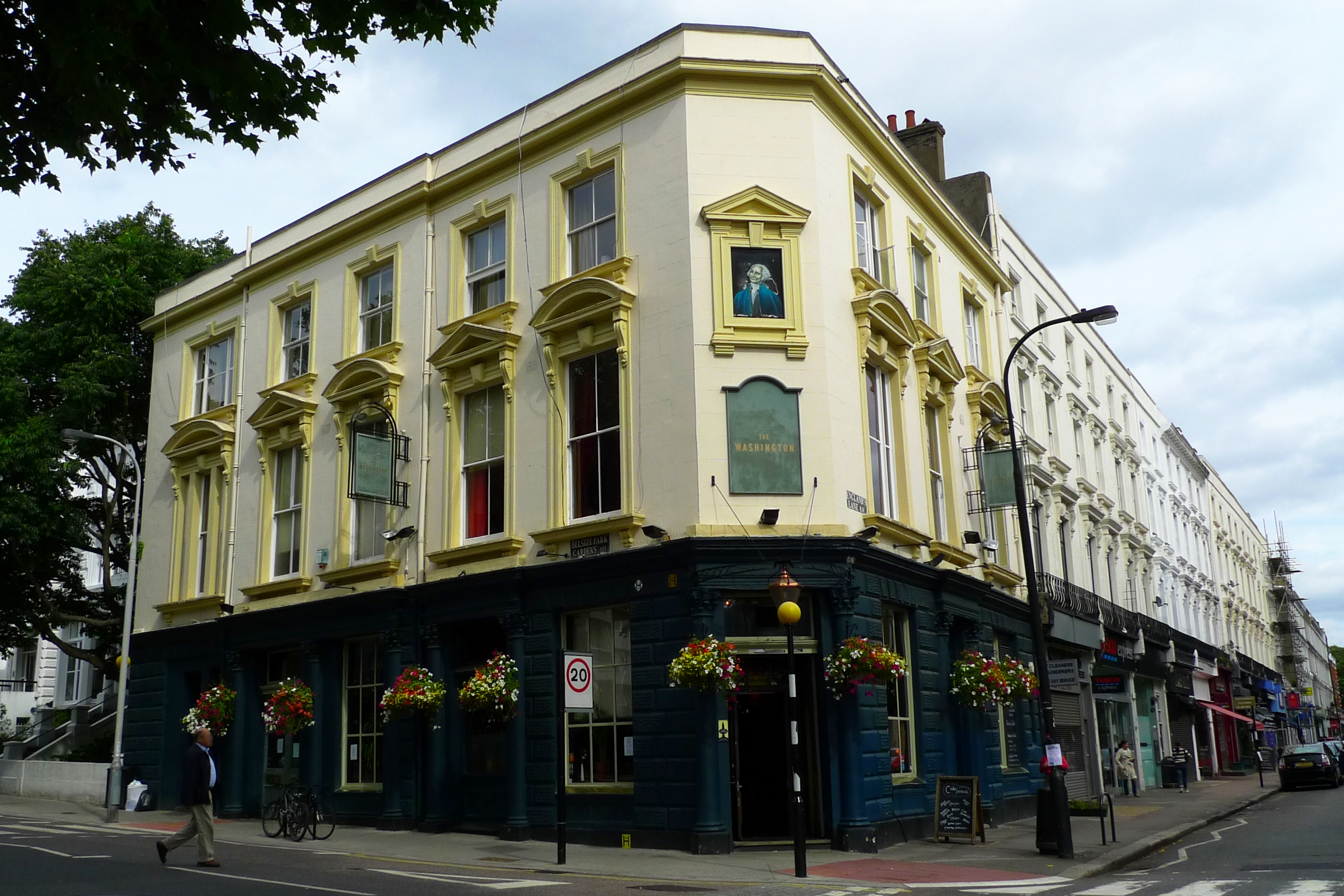 Nice-looking place in a posh area. Address: 50 Englands Lane. Former Name(s): The Washington Hotel. Owner: Mitchells and Butlers [Metro Professionals] (website); Taylor Walker (former). Links: London Pubology